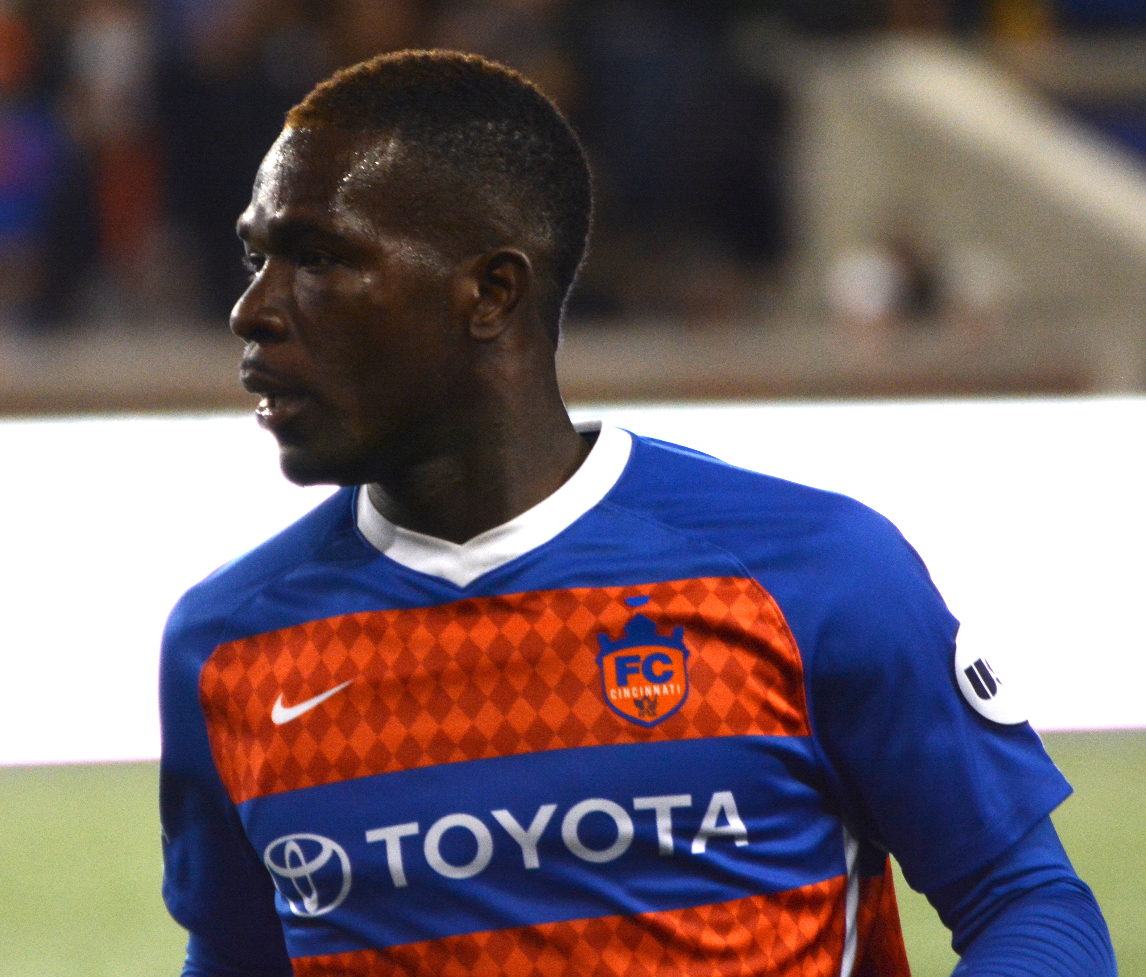 Taken during FC Cincinnati's home opener against Louisville City FC at Nippert Stadium in Cincinnati, USA on April 7, 2018.